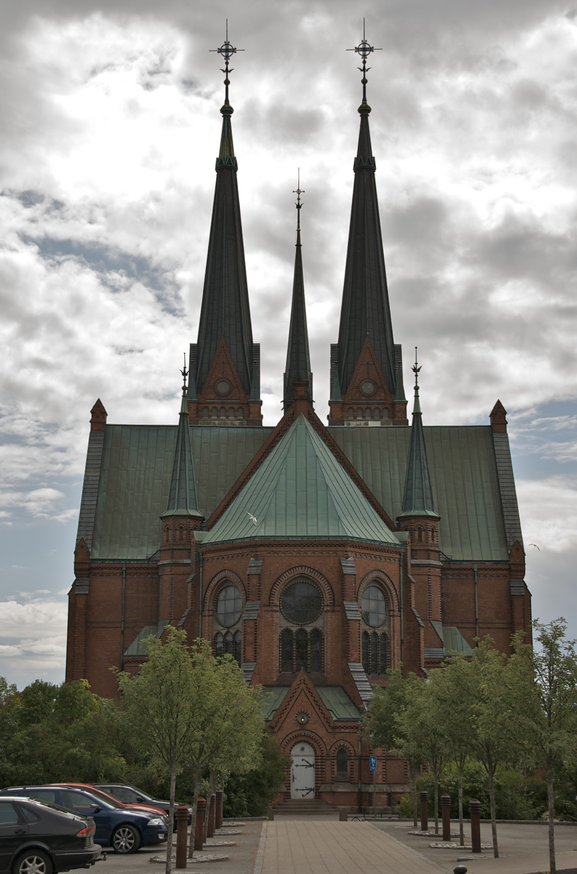 Skien kirke, backside